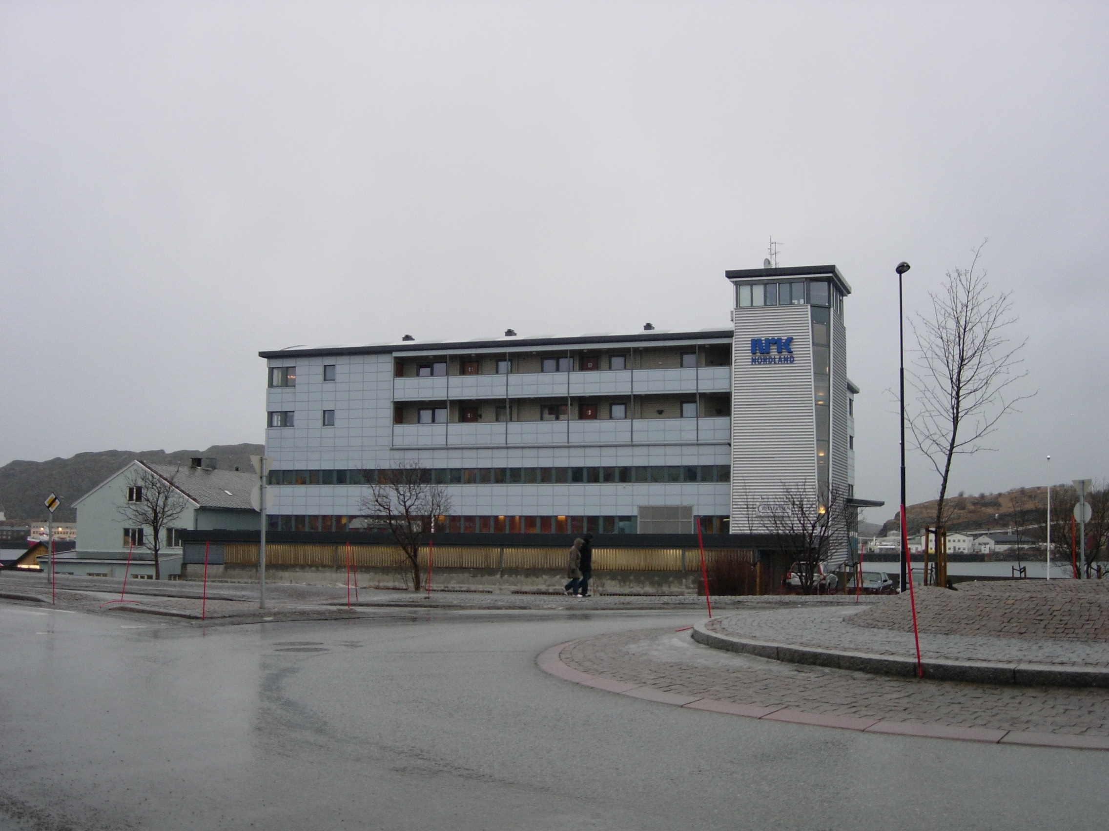 Norsk rikskringkastings district office in Nordland, located in Bodø, Norway